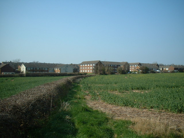 At last Stapenhill (coming from the south)